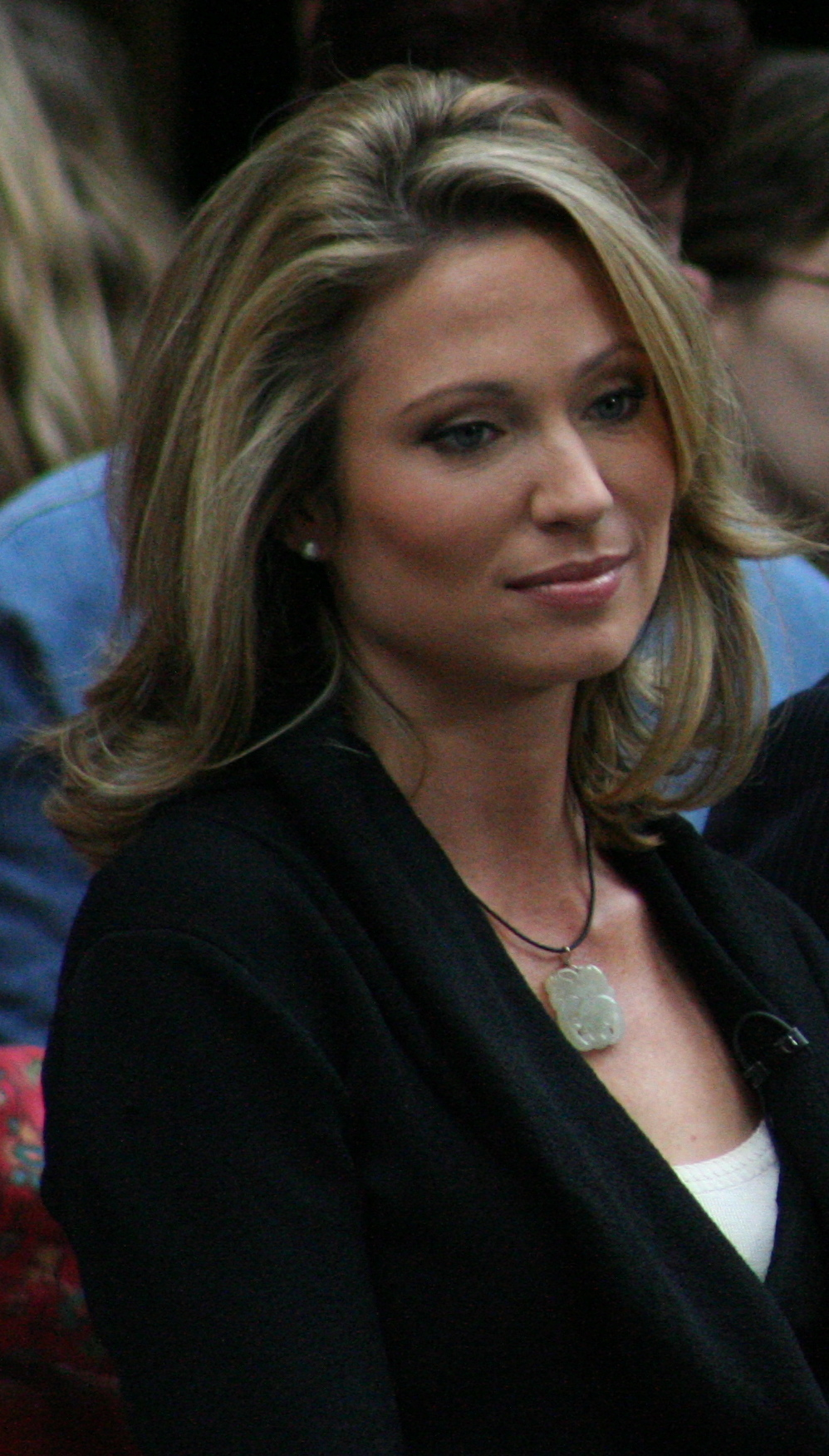 Amy Robach co-hosting the Today Show in Rockefeller Plaza in New York City.